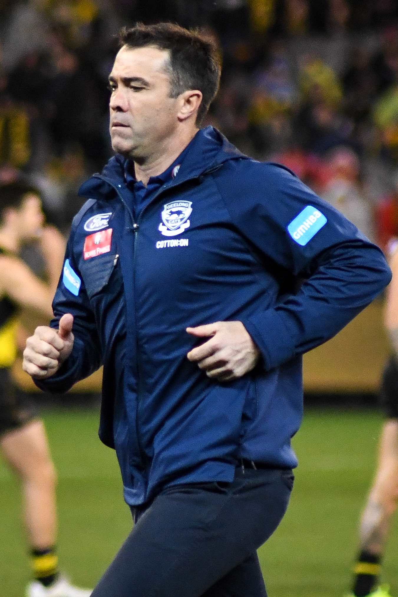 Chris Scott of Geelong during the 2018 AFL round 20 match between Richmond and Geelong at the Melbourne Cricket Ground on Friday, 3 August 2018 in Melbourne, Victoria.